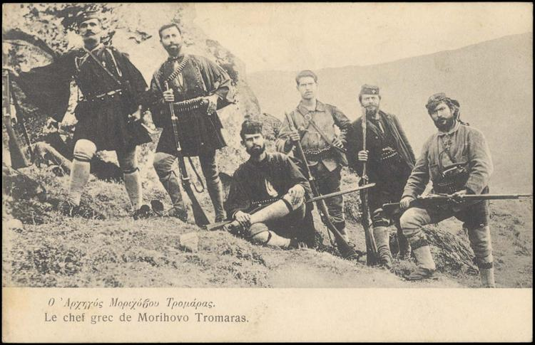 Emmanouil_Sotiriadis